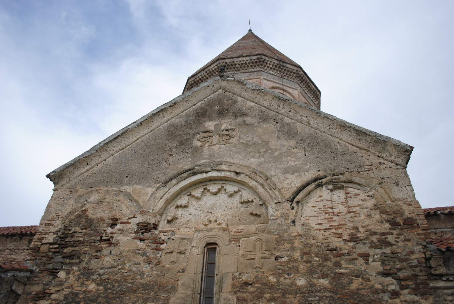 Kakheti. The Khirsa church in Tibaani